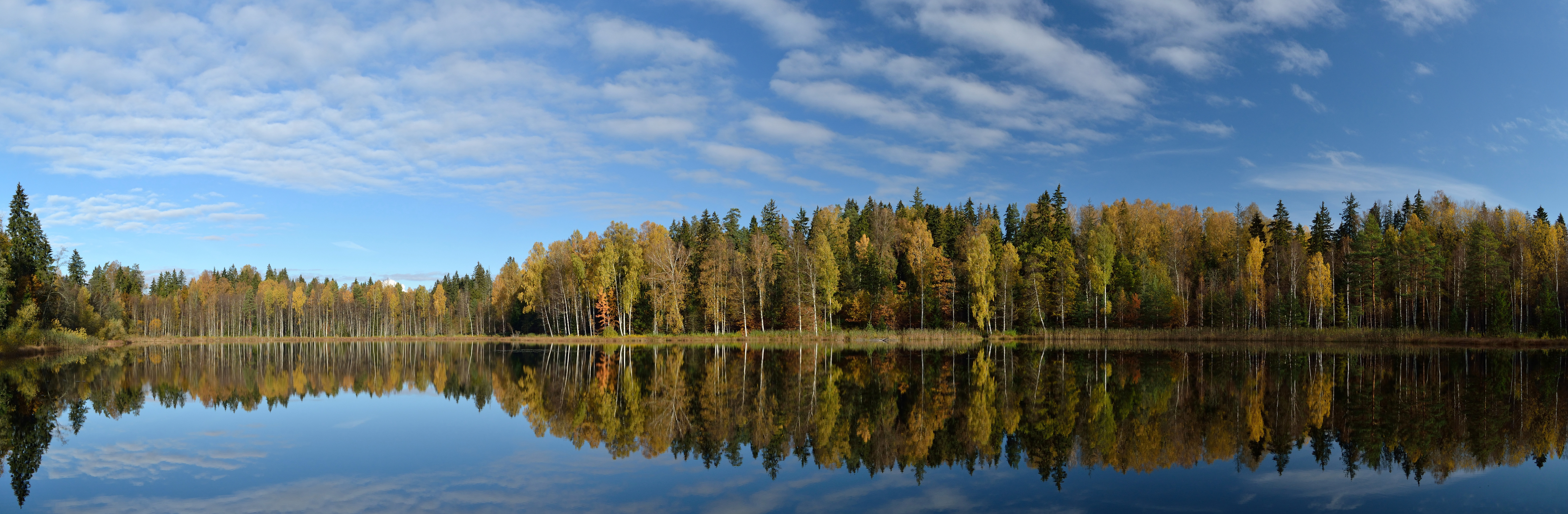 Lake Neeruti Eesjärv, Neeruti Landscape Reserve. Surface area 2.5 ha, deepness as far as 4.9 m.